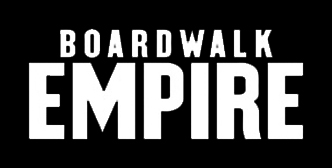 Logo from the television series Boardwalk Empire